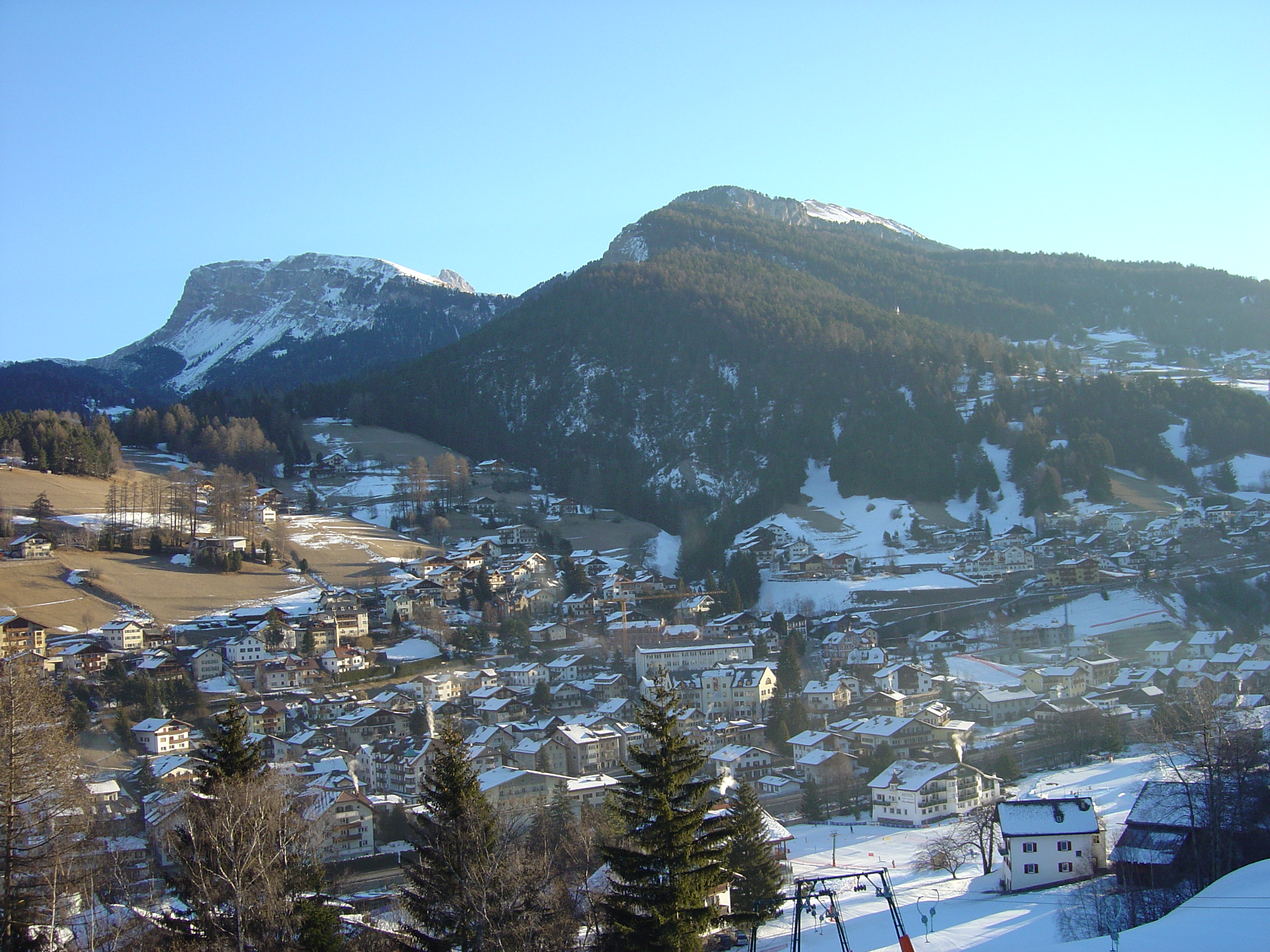 General view of Italian town ORTISEI (provincia of Bolzano)